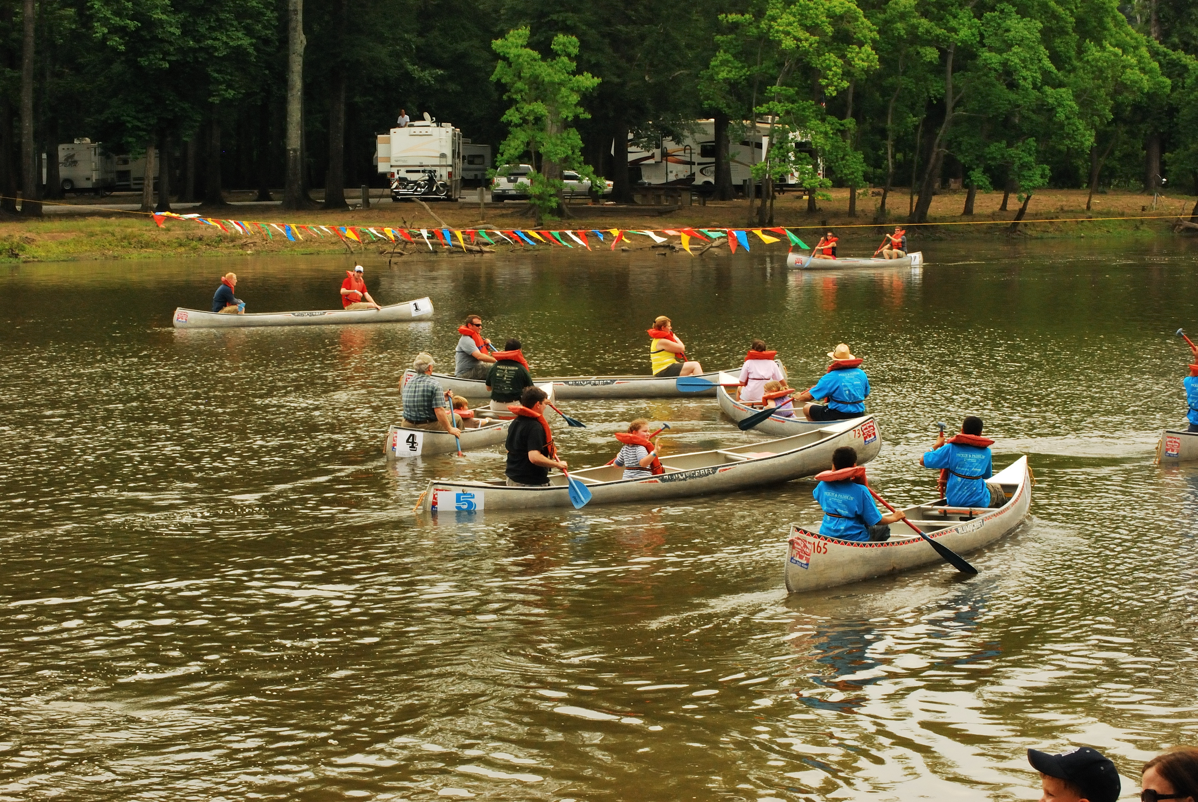 Canoeing at LeFleur's Bluff State Park in Jackson, Mississippi